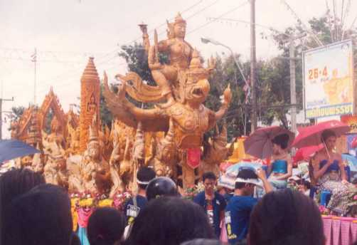 Float at Ubon Candle Festival; picture taken by User: Markalexander100